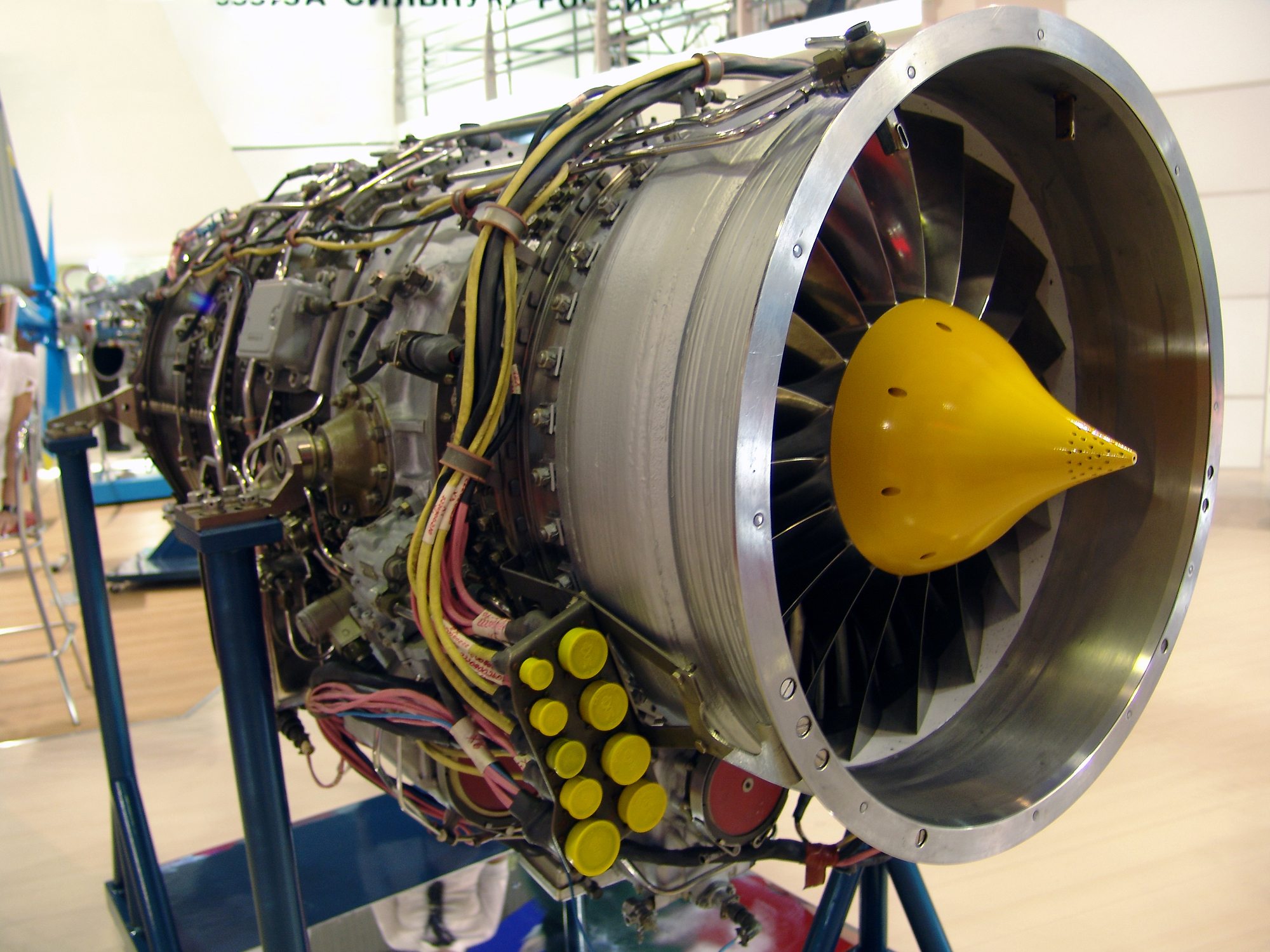 AI-222-25 at MAKS-2007